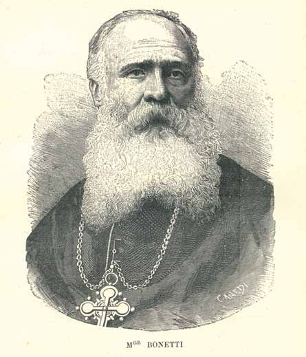 Augusto Bonetti